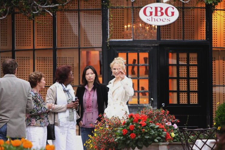 Uncropped photo of Nicole Kidman waving